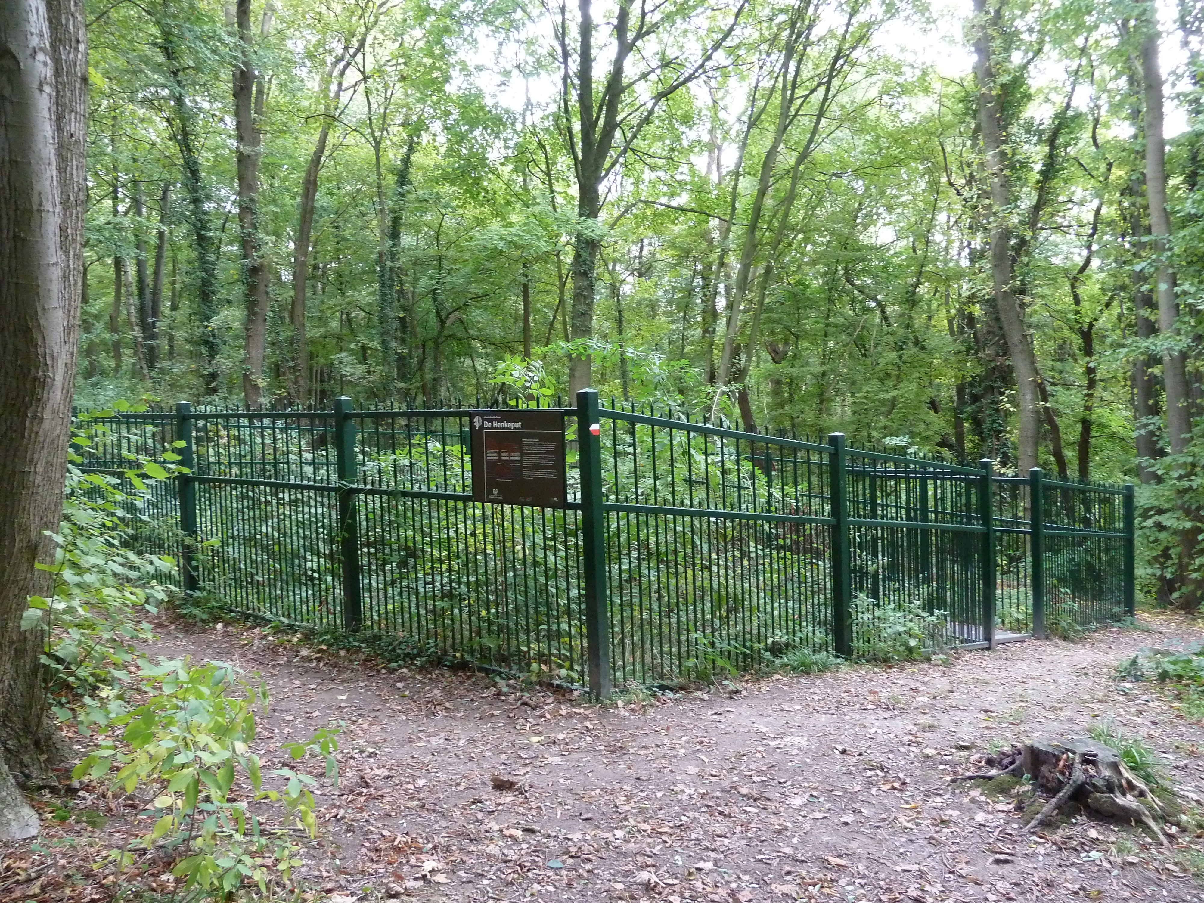 Henkeput in Savelsbosch, Limburg, the Netherlands